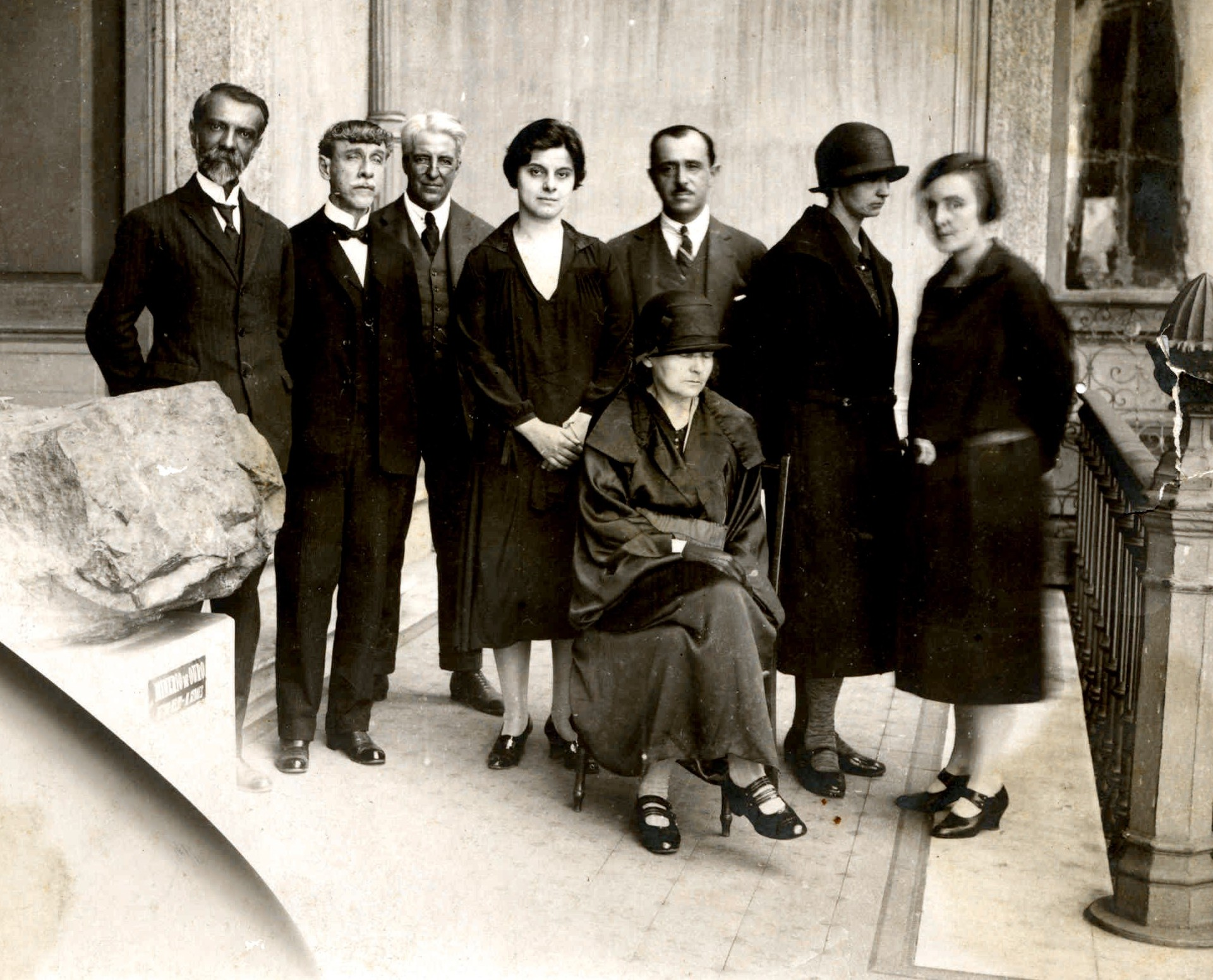 Marie Curie, winner of two Nobel Prizes (Physics in 1903 and Chemistry in 1911) and her daughter, Irene Joliot-Curie (also a Nobel Prize winner - Chemistry, 1935) visit the National Museum of Brazil, Rio de Janeiro, August 8th, 1926. Photograph, 15.5 x 18.5 cm. Collection of the National Museum of Brazil. In the picture, Marie Curie is seated in the chair and, behind her, from left to right, are Alípio de Miranda, an unidentified man, Hermillo Bourguy de Mendonça, Heloísa Alberto Torres, Alberto Betim Paes Leme, Irene Joliot-Curie, and Bertha Lutz.